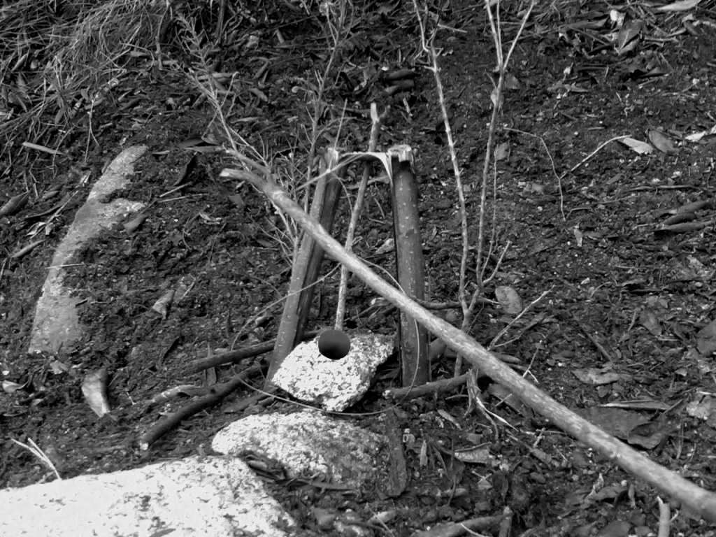 Elba island